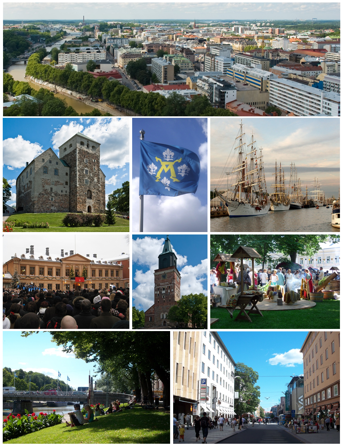 Images, from top, left to right: Top: Panorama of Turku from the tower of Turku Cathedral by Markus Koljonen (Dilaudid) (CC-by-sa-3.0) Second row, left: Turku Castle by Markus Koljonen (Dilaudid) (CC-by-sa-3.0) Second row, center: Flag of Turku by Vrlpep 12552 (Vrlpep 12552) (PD-self) Second row, right: Tall Ships' Races in Turku by Andrei Niemimäki (CC-by-sa-2.0) Third row, left: Turku Christmas Peace balcony by LPfi (LPfi (Creative Commons Attribution 3.0) Third row, center: Turku Cathedral by Markus Koljonen (Dilaudid) (CC-by-sa-3.0) Third row, right: Turku medieval market by Samuli Lintula (CC-by-2.5) Bottom left: Aura river in summer by Arthur Kho Caayon (Creative Commons Attribution 2.0) Bottom right: Main pedestrian only street in CBD by Arthur Kho Caayon (Creative Commons Attribution 2.0)